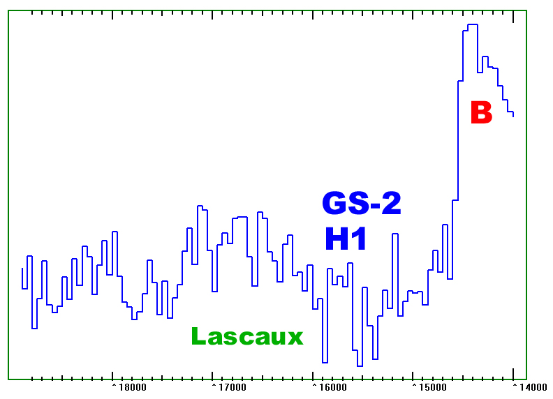 GS-2 or H-1 was cold period, Heinrich event in last ice age. It is seen in NGRIP ice core oxygen isotope deltao18 data. It contains Pomeranian, Mecklenburg stages in North Germany. In america it corresponds Dimlington-Chignecto-phase or Port Huron stadial. In Alps it is Gschnitz-stadial.